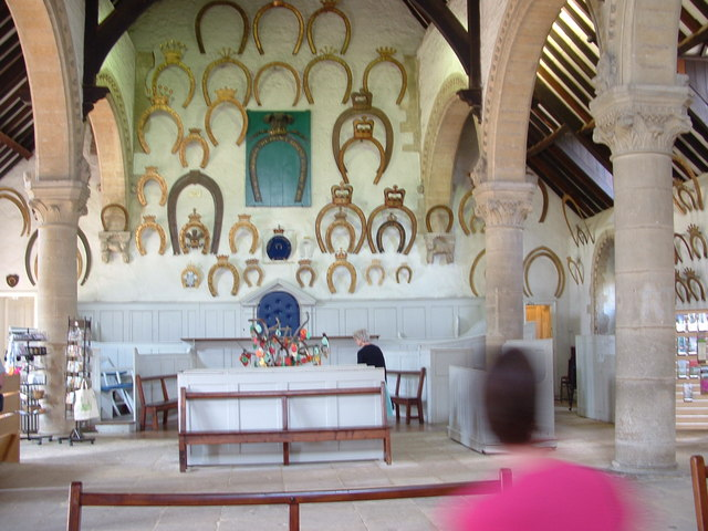 Oakham Castle, great hall. Horse shoes affixed by knights, noblemen and others, in honour of the de Ferrers family, ancient lords of the manor.